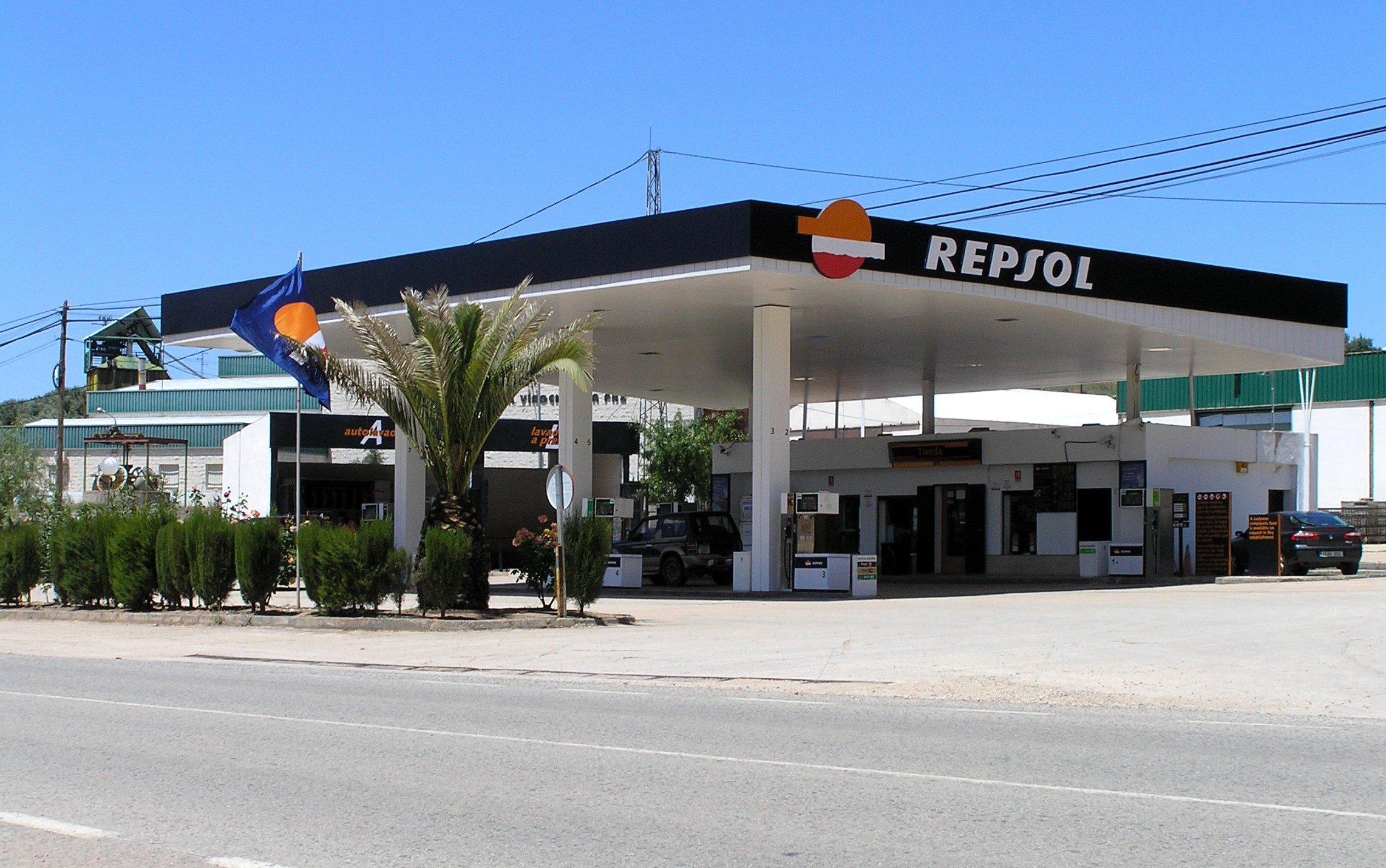 Gasolinera de Beas de Segura